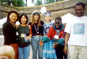 Participants of the Esperanto World Youth Congress 2001 in Strasbourg